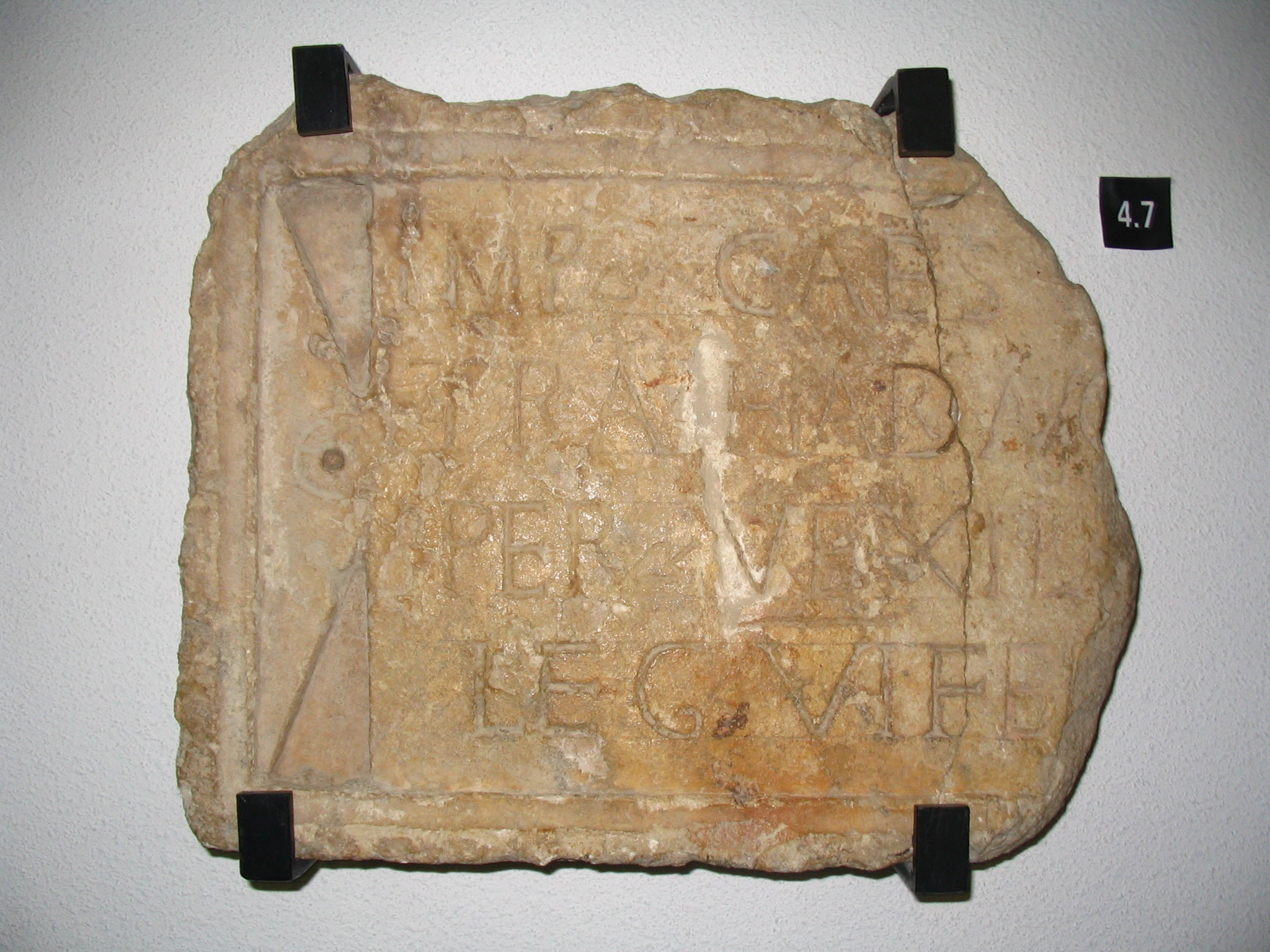 Inscription of the Legio VI Ferrata from the High Level aqueduct of Caesarea, dated to Caesar Hadrian (ca. 130). On display at Ralli Museum, Caesarea. IMP(eratori) CAES[ARI] TRA(iano) HAD(riano) AVG(usto) PER VEXIL(lationem) LEG(ionis( VI FE[R(ratae)]